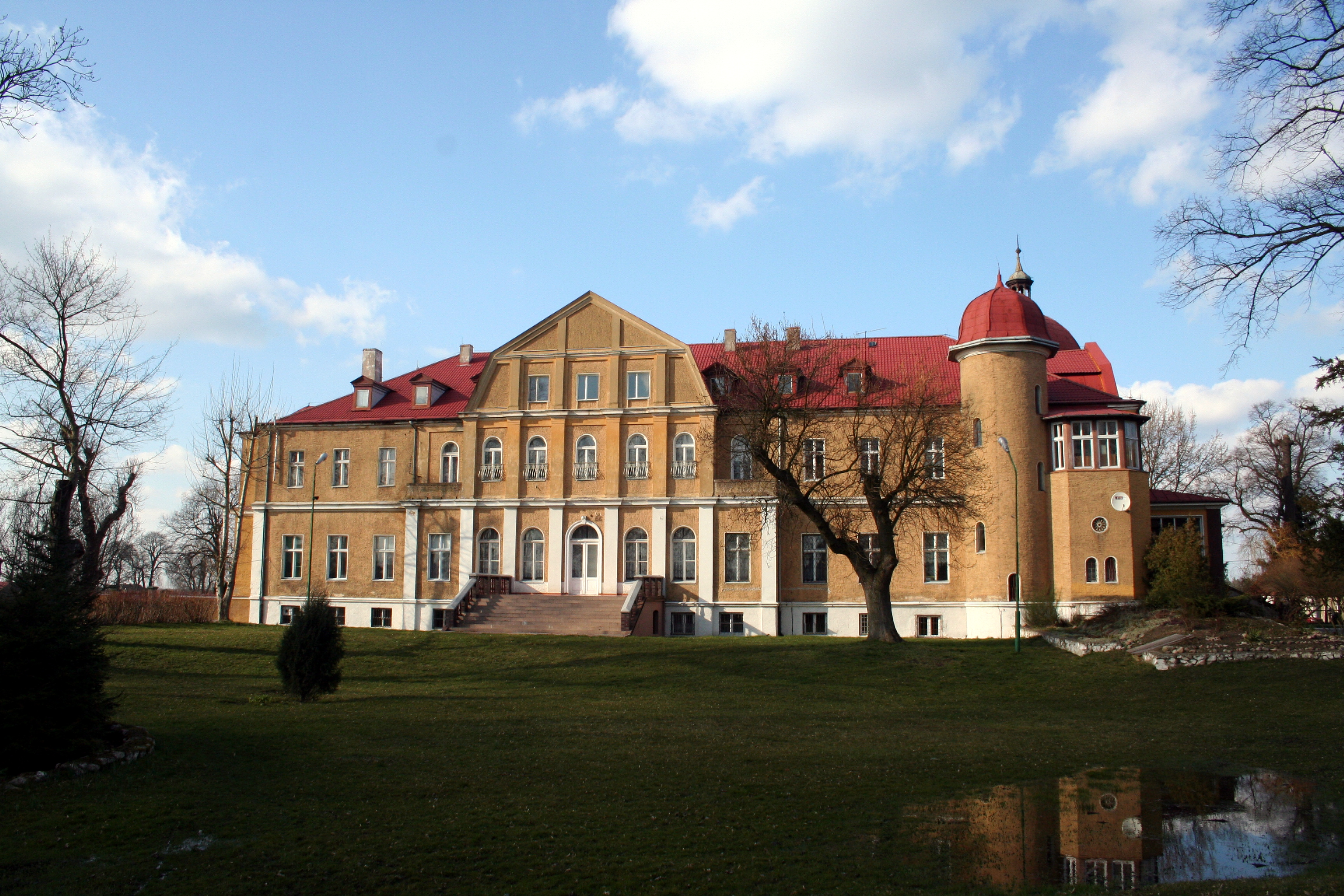 Smolnica palace, south facade